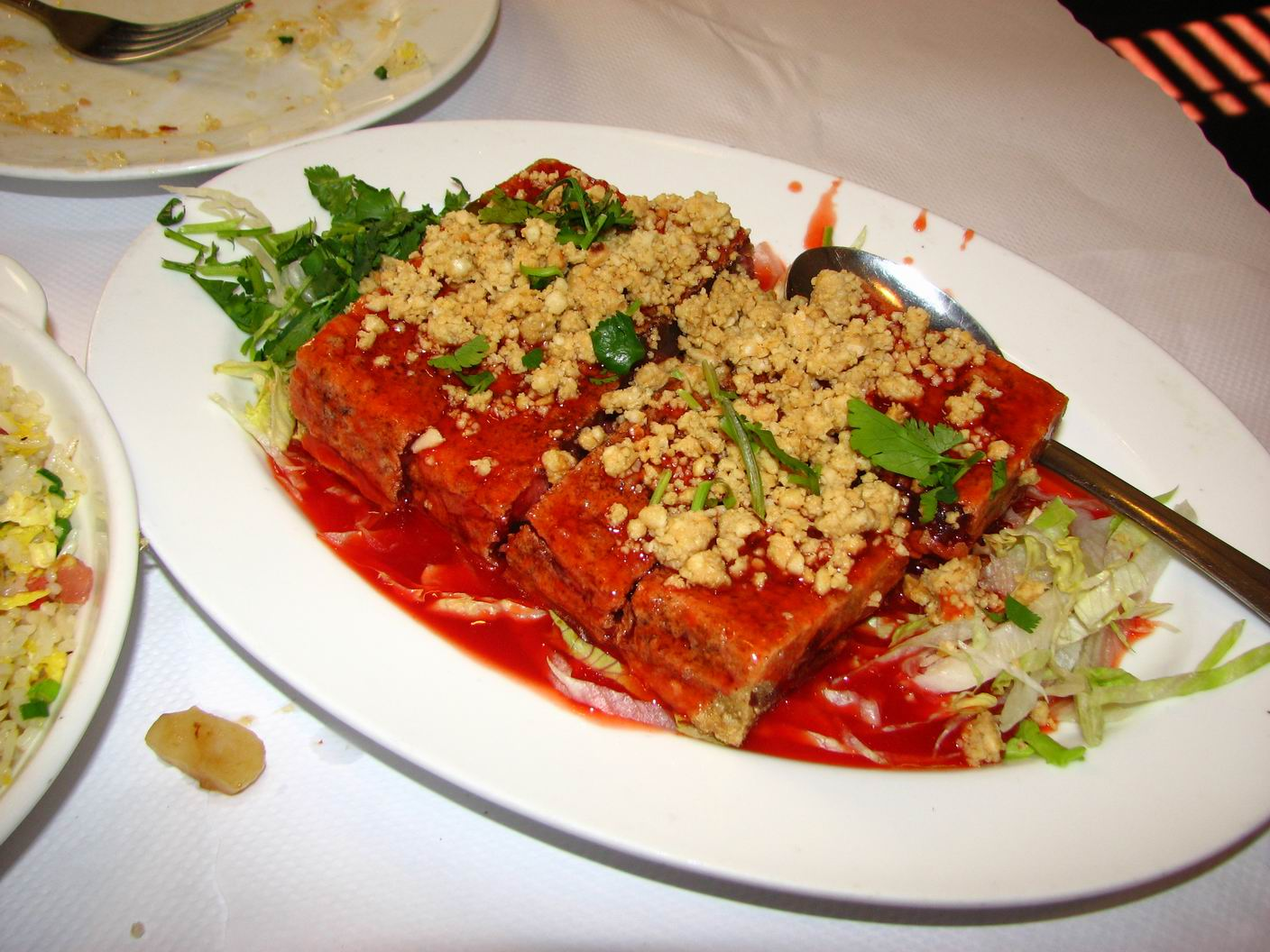 A photograph of Almond, or Mandarin, Pressed Duck taken by me at the Sue Hong Restaurant in Palo Alto, California